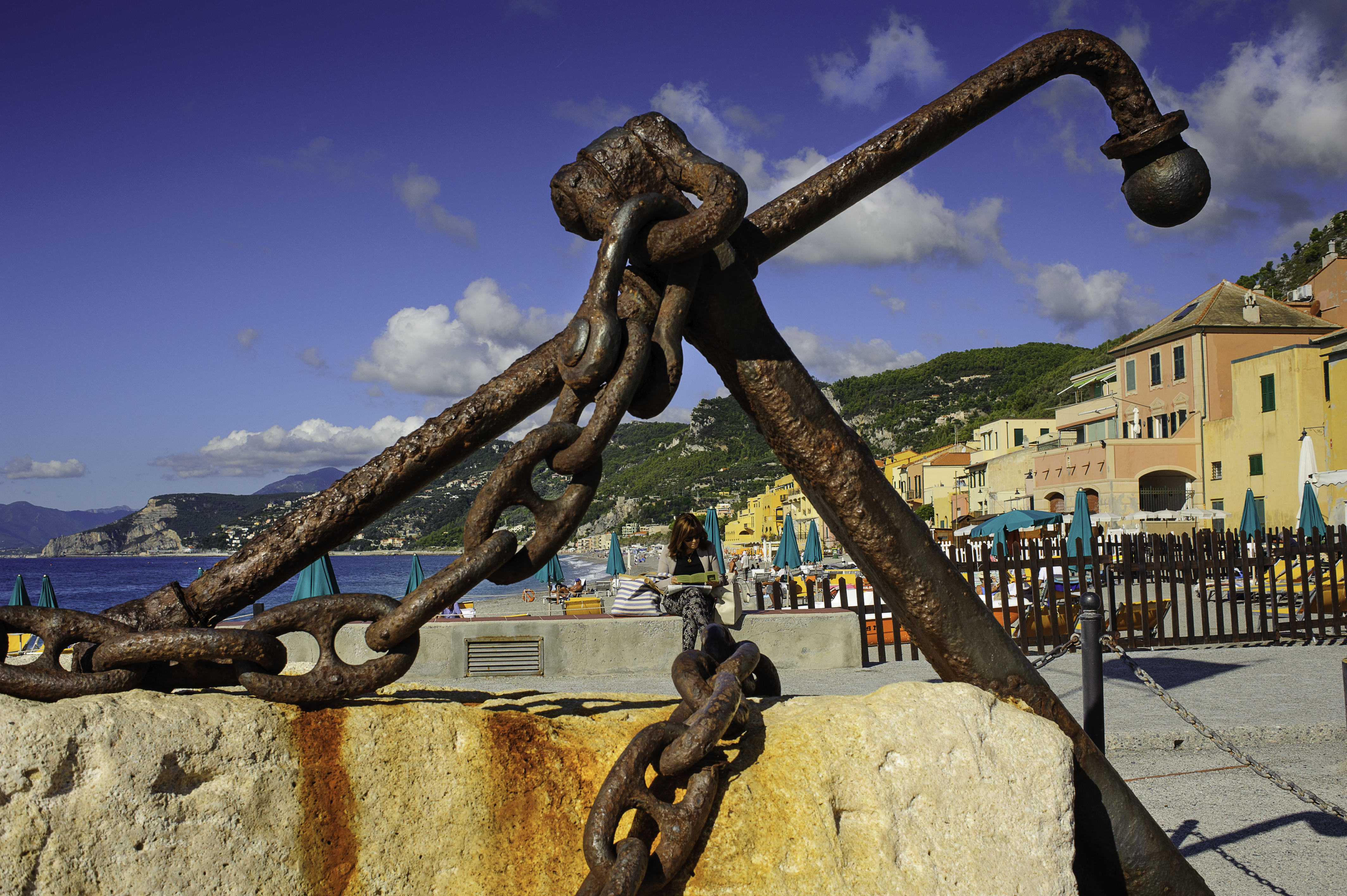 This rusty anchor is located on Renato Castellani pier at Varigotti. (Finale Ligure, Italy)